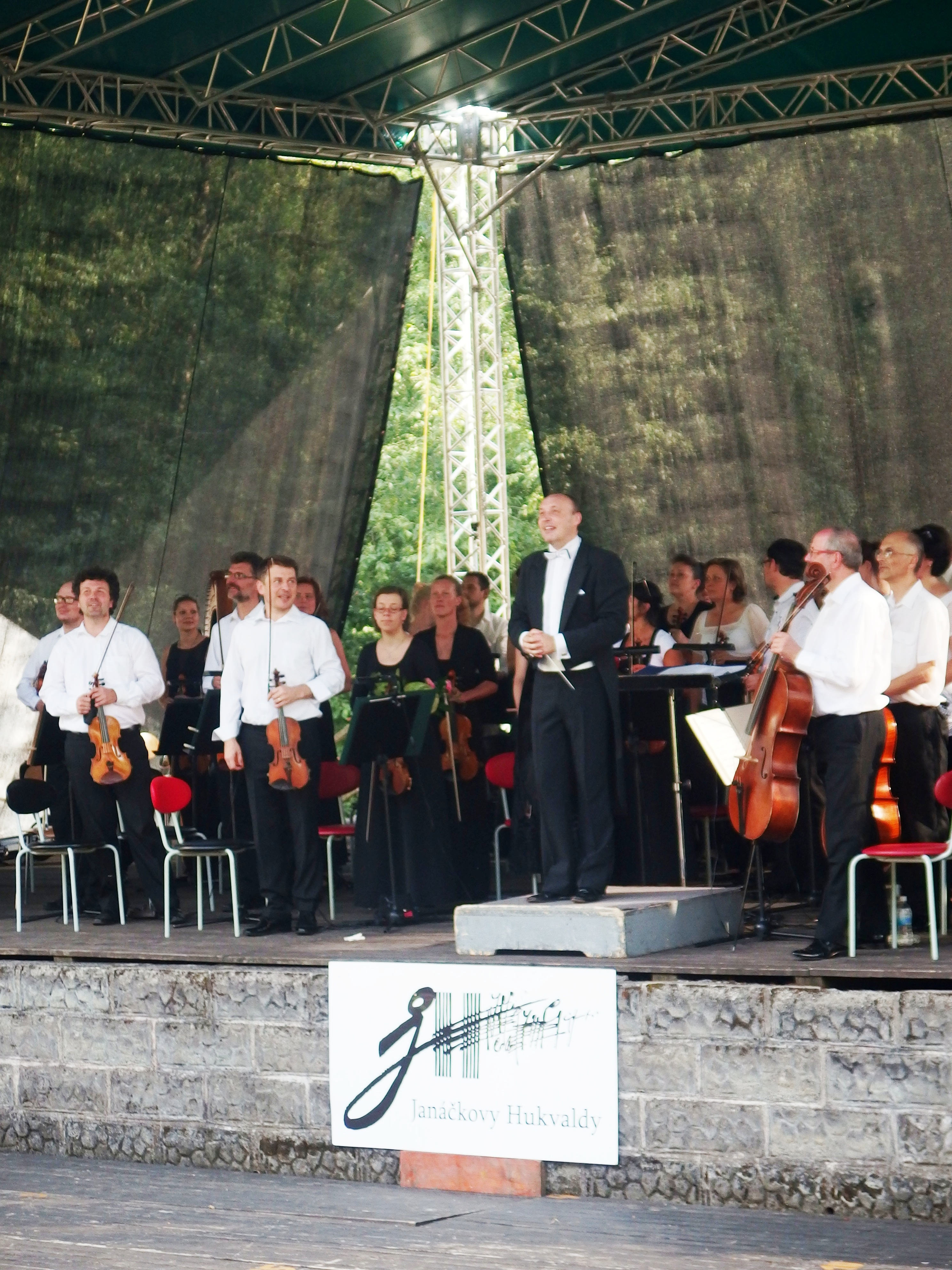 Janáčkovy Hukvaldy 2016, a music festival in Hukvaldy, Czech Republic.